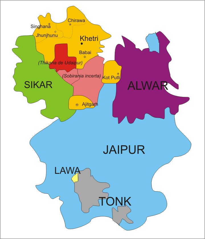 Map of Khetri princely state and neighburgs